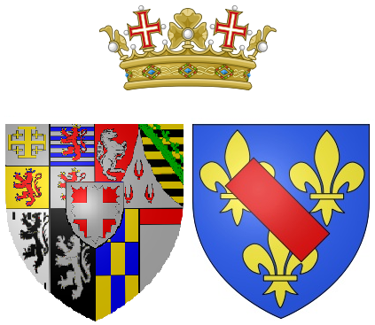 Coat of arms of Marie de Bourbon (Countess of Soissons in her own right) as Princess of Carignan